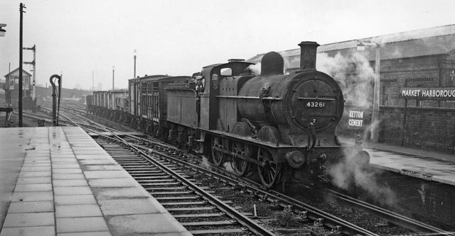 Market Harborough Station and a Midland 0-6-0 shunting. View northwards, towards Leicester and the North on the ex-Midland (right) London St Pancras - Leicester - Sheffield/Derby etc. and (left) ex-London & North Western Rugby/Northampton - Stamford - Peterborough, also Melton Mowbray and Nottingham lines. The ex-LNW part of the station was to the left and the Midland lines crossed over the LNW lines about a mile to the north of the station, at Great Bowden. The locomotive is ex-Midland 0-6-0 No. 43261. The signalbox visible is No. 2.